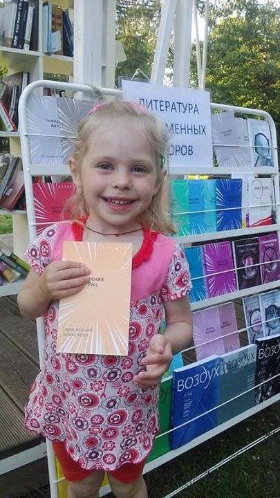 The young girl by the shelf with contemporary Russian poetry at the outdoor library in Goncharovsky Park, Moscow